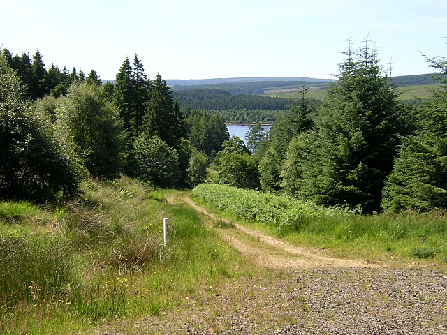 Track in Kielder Forest. Track in Kielder Forest on north side of Kielder Water